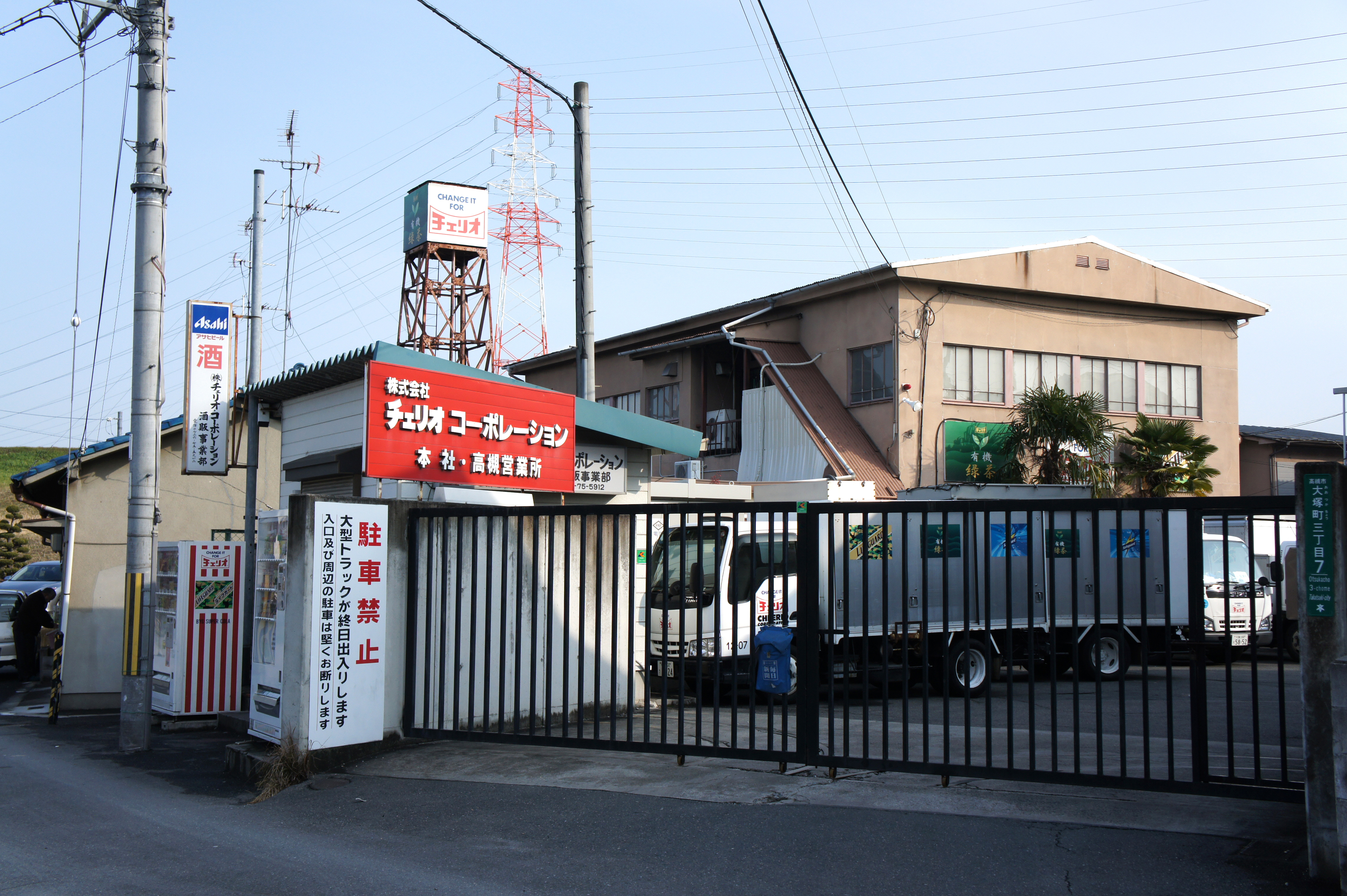 Cheerio Corporation, 3-7-13 Otsukacho Takatsuki-City Osaka JAPAN